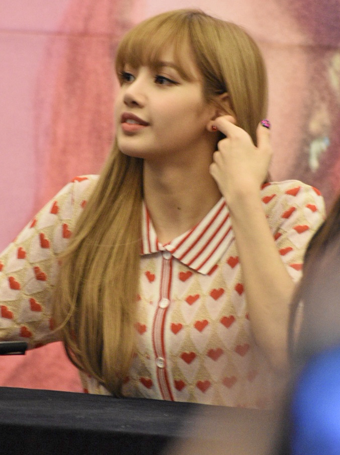 BLACKPINK fansign event at the AK Plaza in Bundang on June 24, 2018.